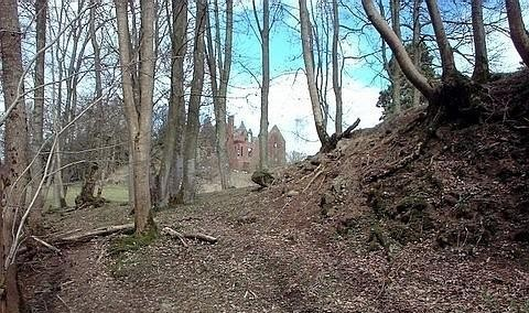 Ruin of Achalader House, Kinloch, Perth and Kinross